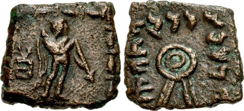 Zoilos II Soter (Ma)harajasa tratarasa Jhahilasa